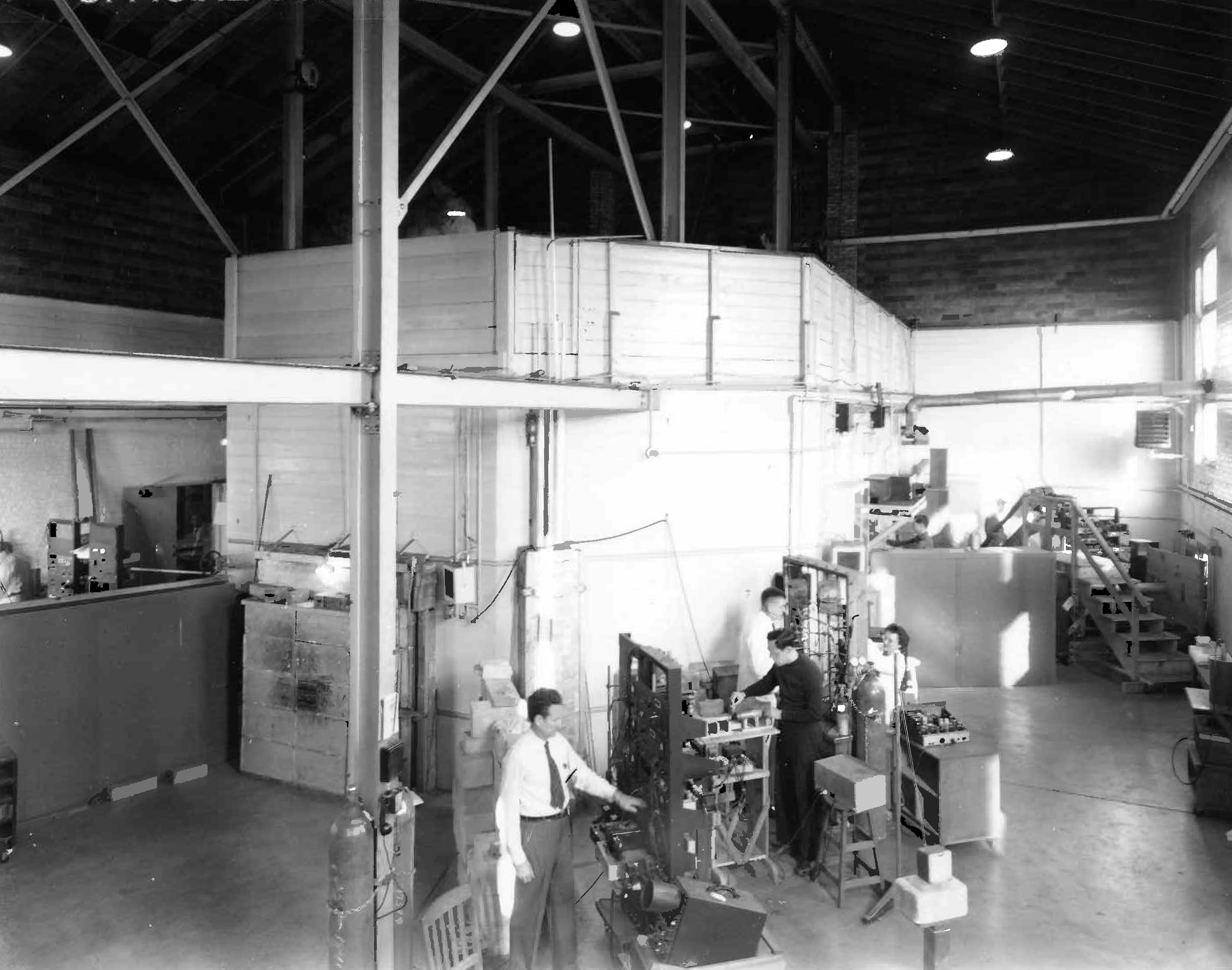 Courtesy Argonne National Laboratory. Neg. No. 1-40